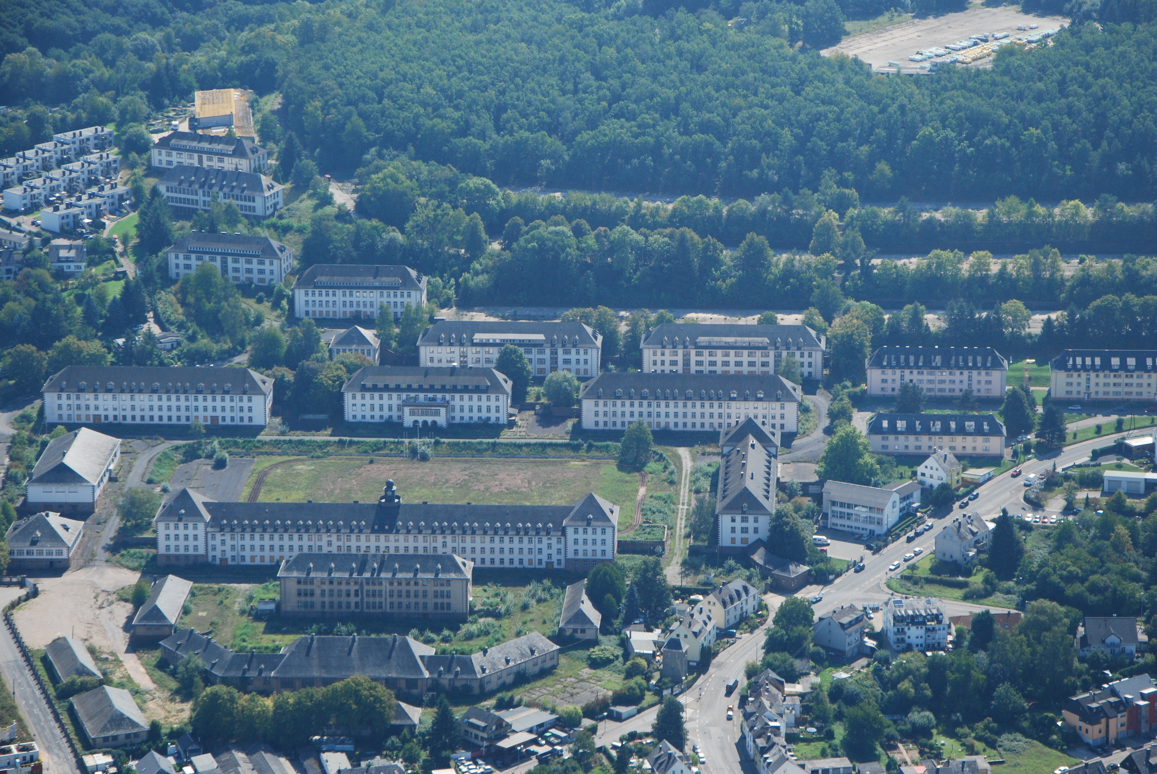 Aerial view Castelnau-Barracks 2011